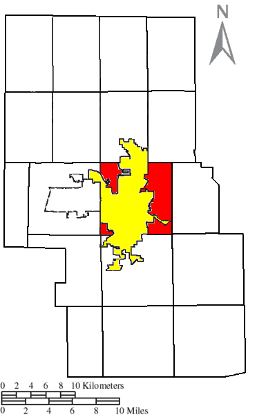 Made by the US Census and altered by myself to highlight the township